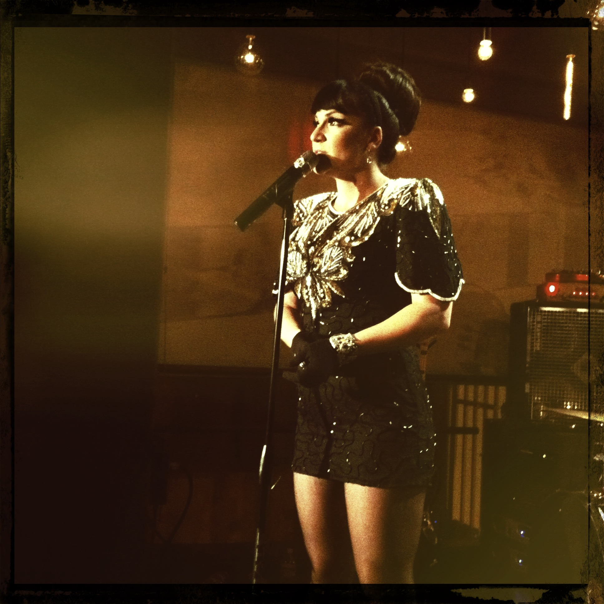 Shoshana Bean performs live in Los Angeles, CA (June 2011)